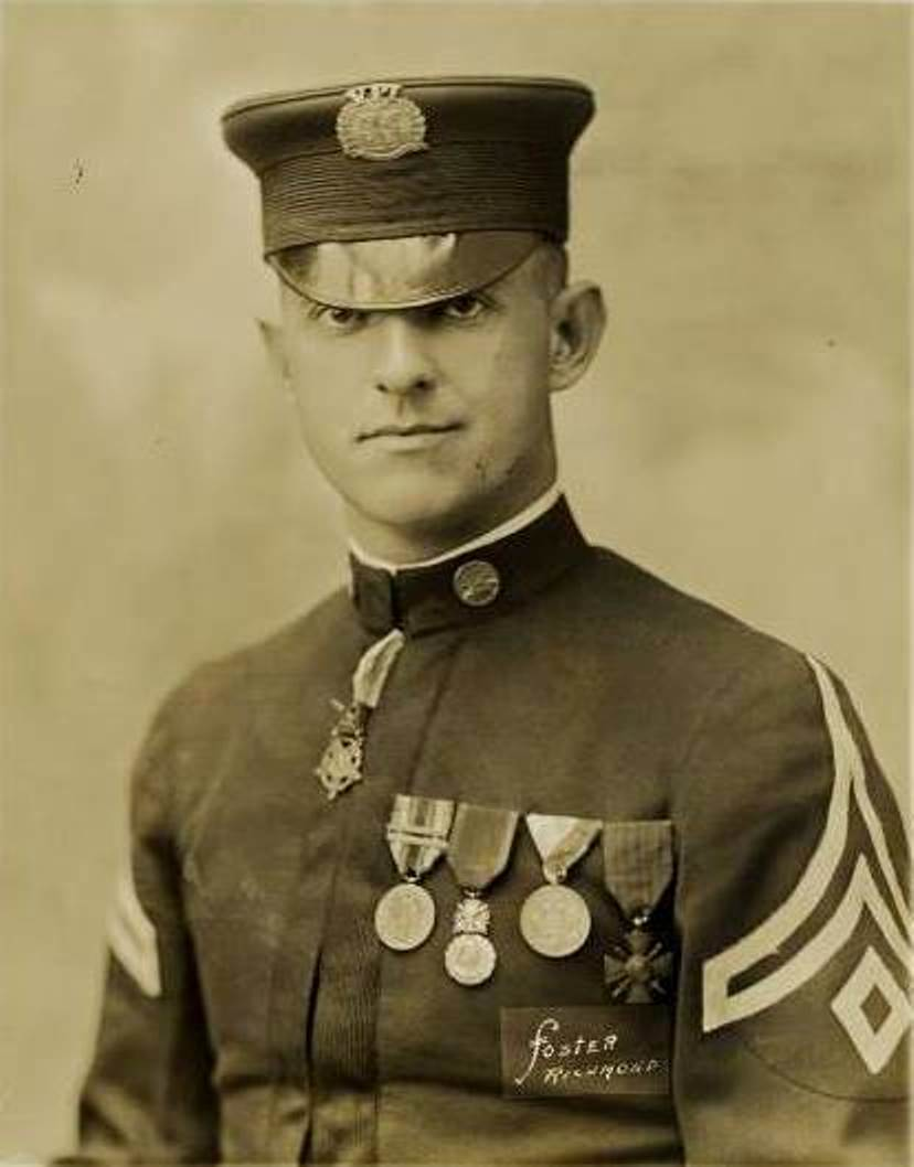 Earle D. Gregory wearing his WWI decorations while a cadet and student at Virginia Polytechnic Institute - the Medal of Honor, the WWI Victory Medal with two battle clasps (Meuse-Argonne and Defensive Sector), the French Médaille militaire, the Montenegrin Medal for Military Bravery and the French Croix de guerre (missing its bronze palm device).